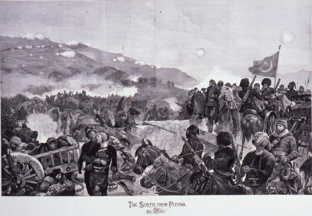 The Sortie from Plevna